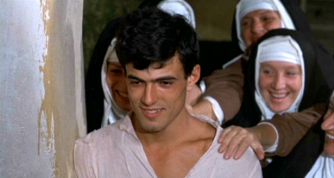 Screenshot from Il Decameron